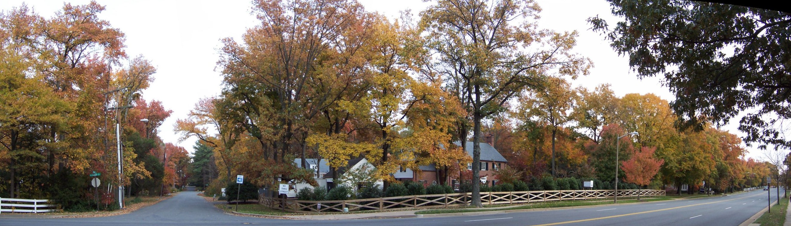 Quaker Lane (VA 402) at Bishop Lane, Alexandria, Virginia, United States in November 2006